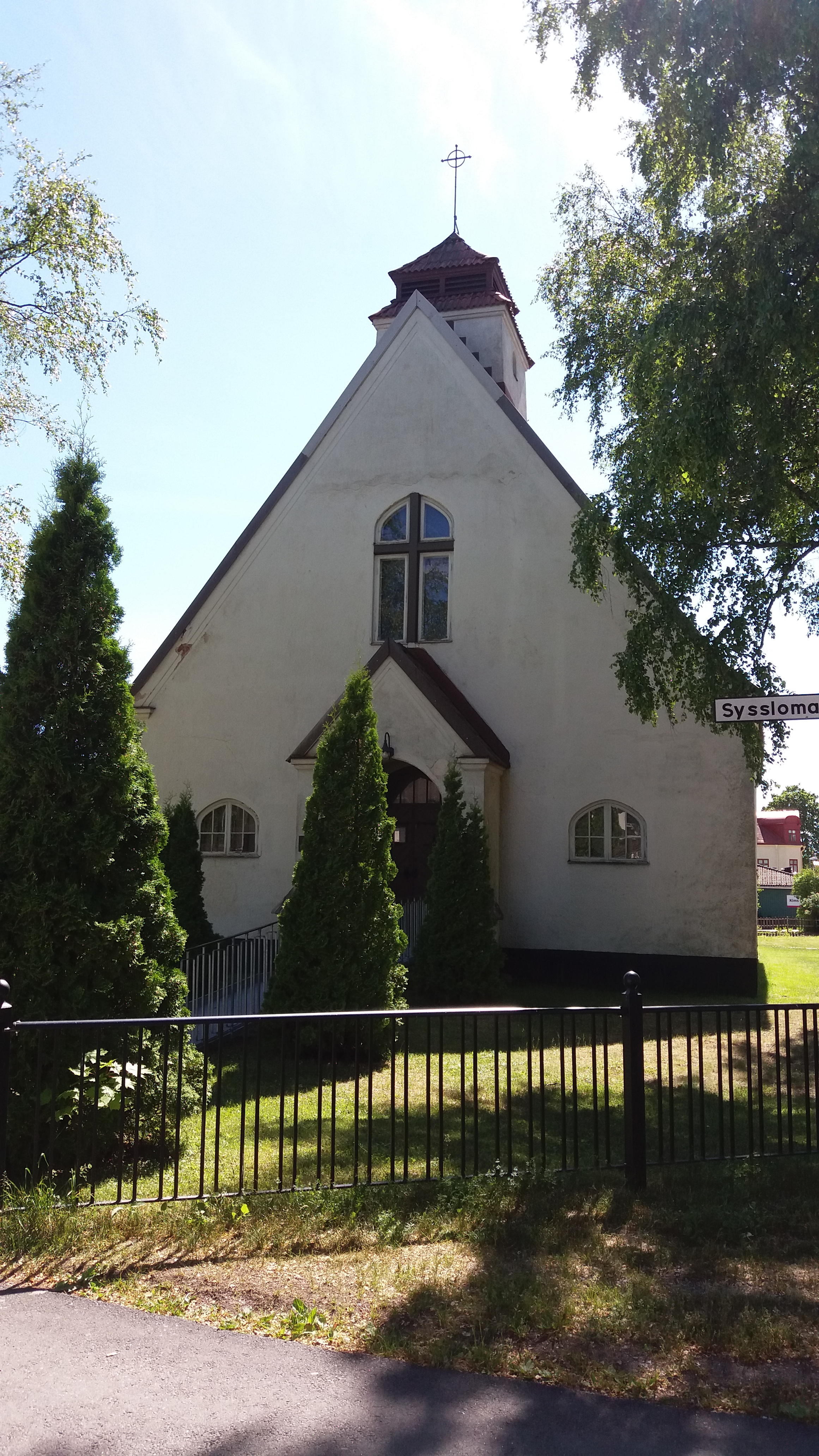 The greek orthodox church of the apostle Paul. Sysslomansgatan 46, Uppsala.